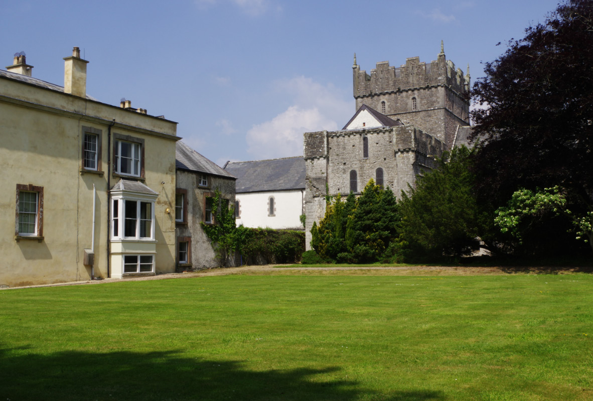 The church of St Michael and All Angels is a fine example of a Norman church, still very much in use today. To the left is Ewenny Priory House.